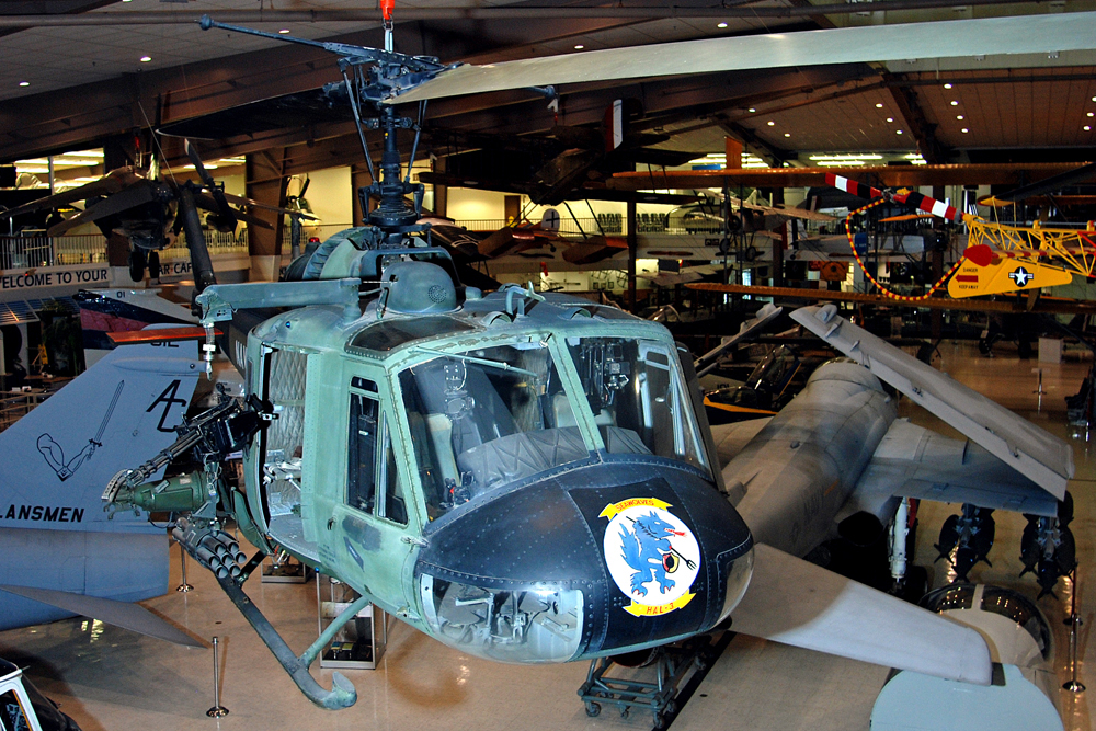 Picture of a HA(L)-5 HH-1K in HA(L)-3 Markings in the National Museum of Naval Aviation in Pensacola, FL